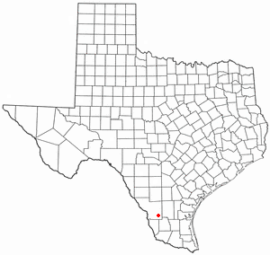 Adapted from Wik ipedia's TX county maps by Seth Ilys.